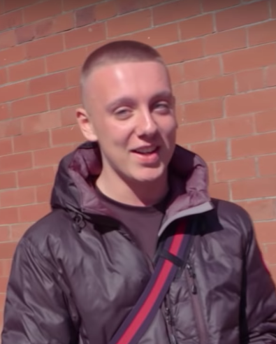 Aitch on YO! MTV Raps Original